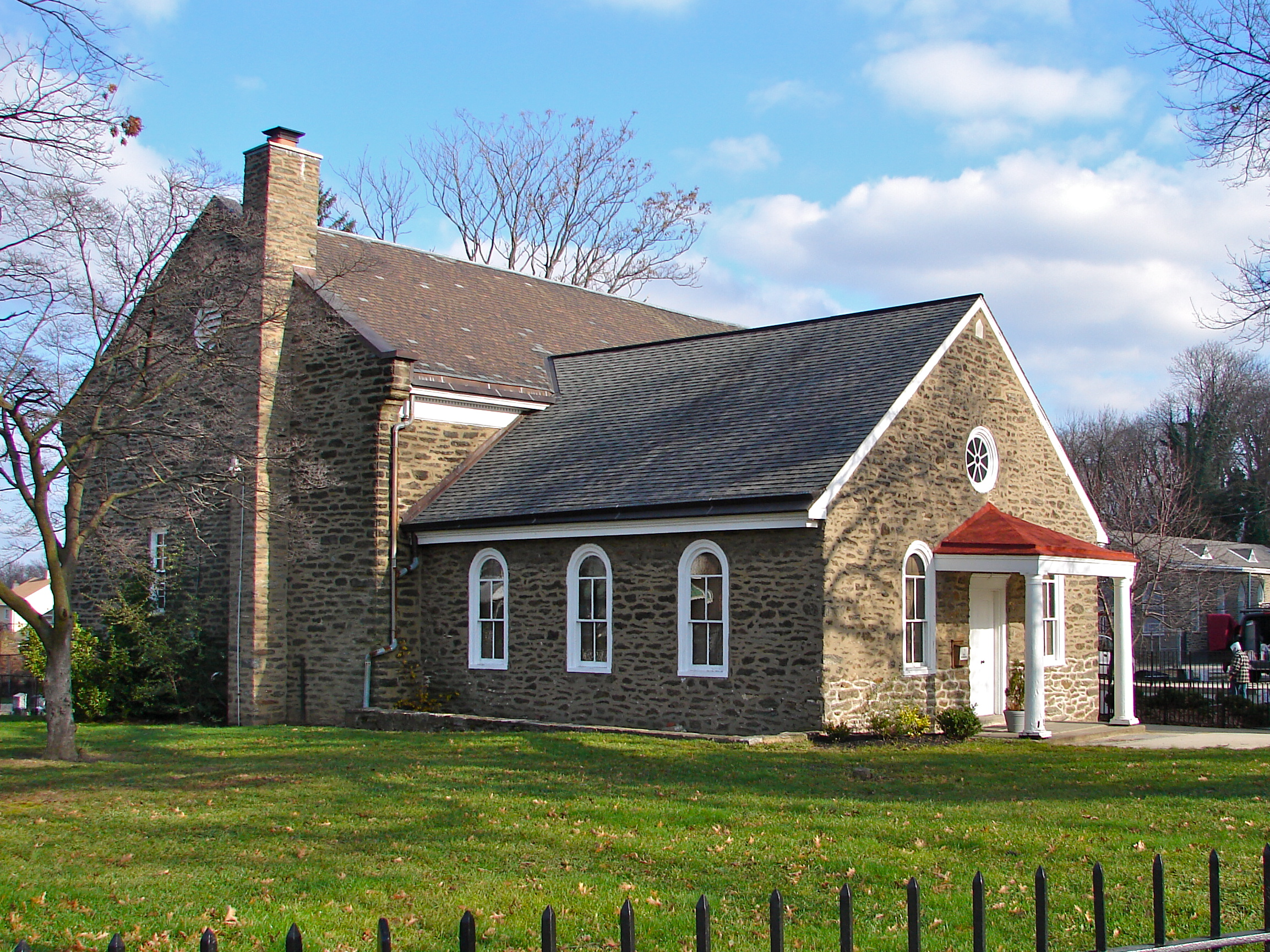 Church of the Brethren, 6611 Germantown Ave., Philadelphia Pennsylvania, in Colonial Germantown Historic District (NHL). PHMC (state) historic marker says it was built in 1770 as the first meetinghouse of the Church of the Brethren in America. Brethren are also known as Dunkards and the Church has a very decentralized organization, even in the 20th Century, so "1st" might be disputed by some